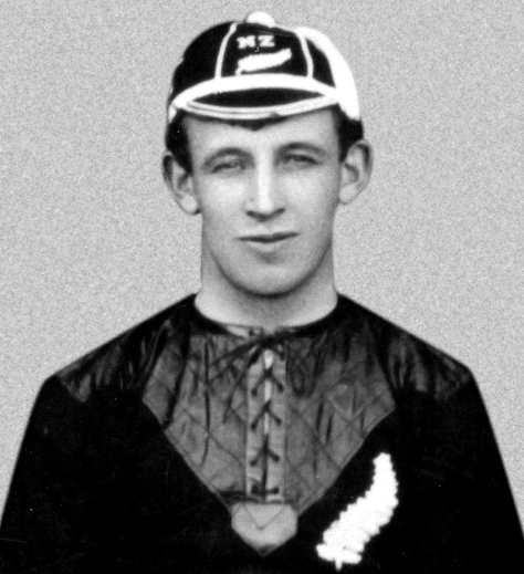 Image of All Black Billy Stead